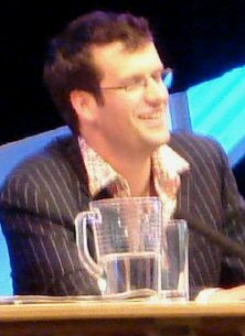 Marcus Brigstocke during The Early Edition. Cropped from original.